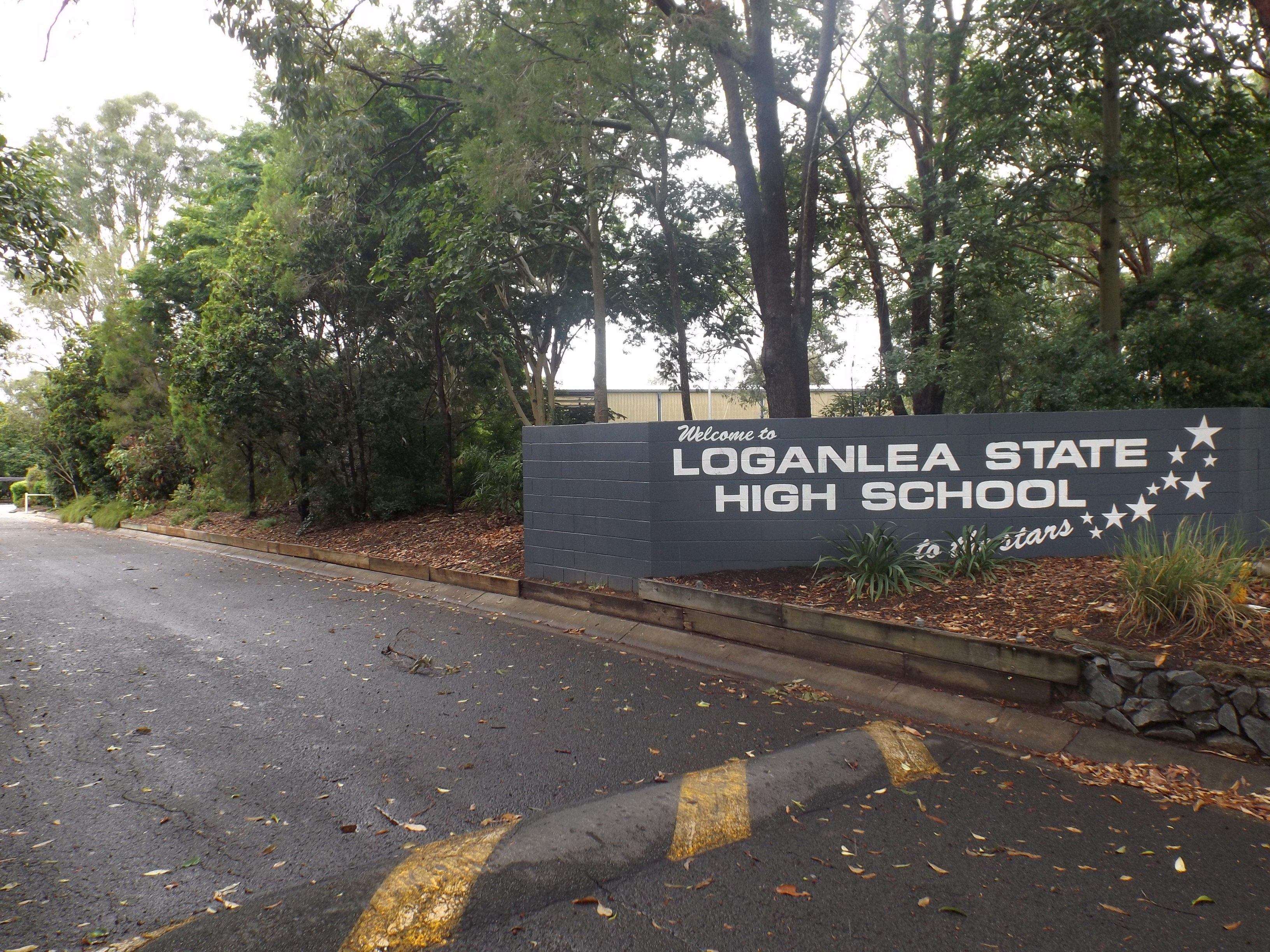 Photo of Loganlea State High School southern entrance in Loganlea, Logan City, Queensland, Australia.